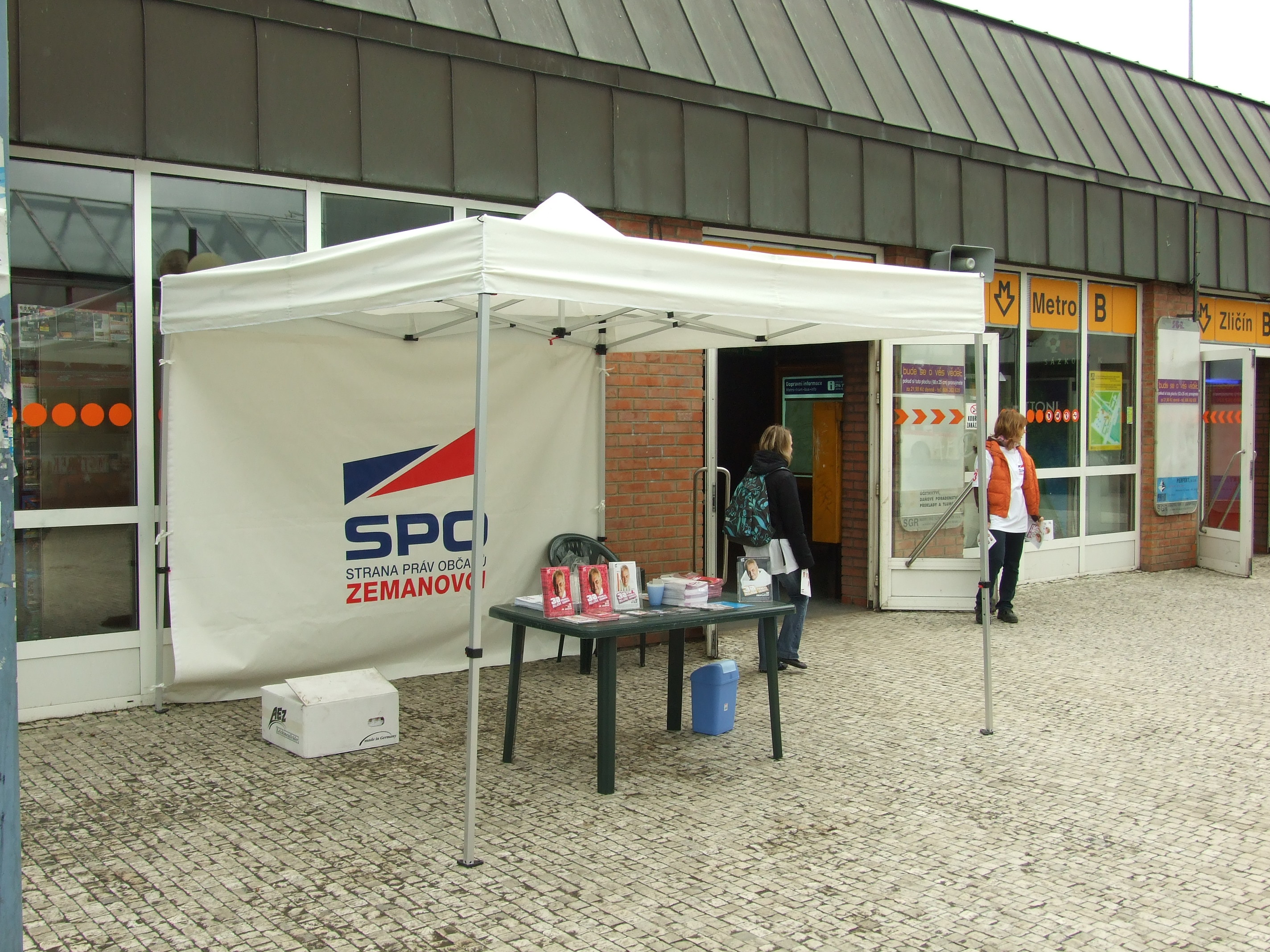 SPOZ party campaign in Prague-Zličín, CZ